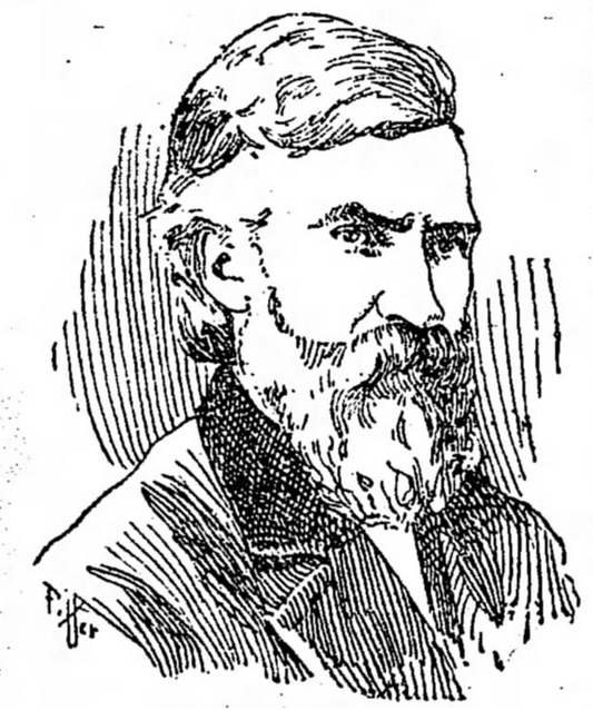 Portrait of Byron Gray Stout from the Detroit Free Press, June 20, 1896, Page 3